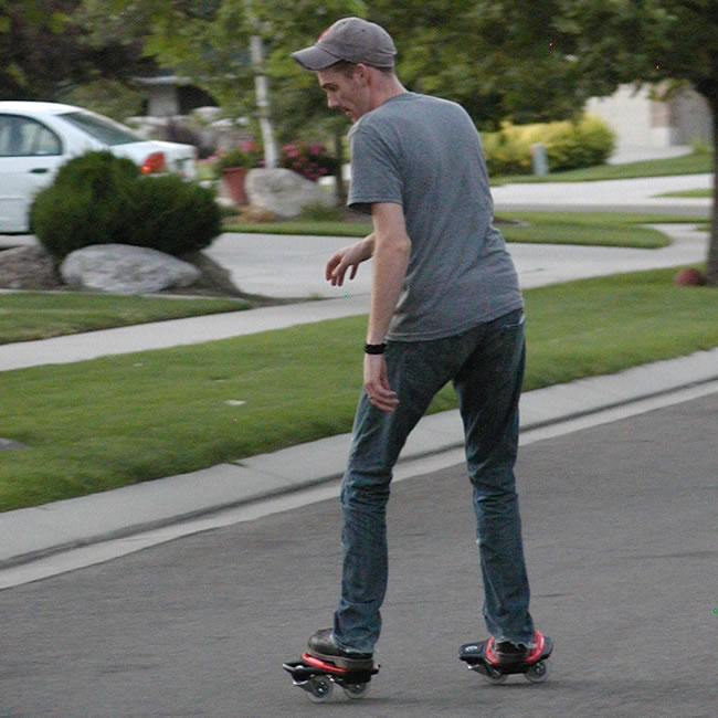 A person riding Caster Skates